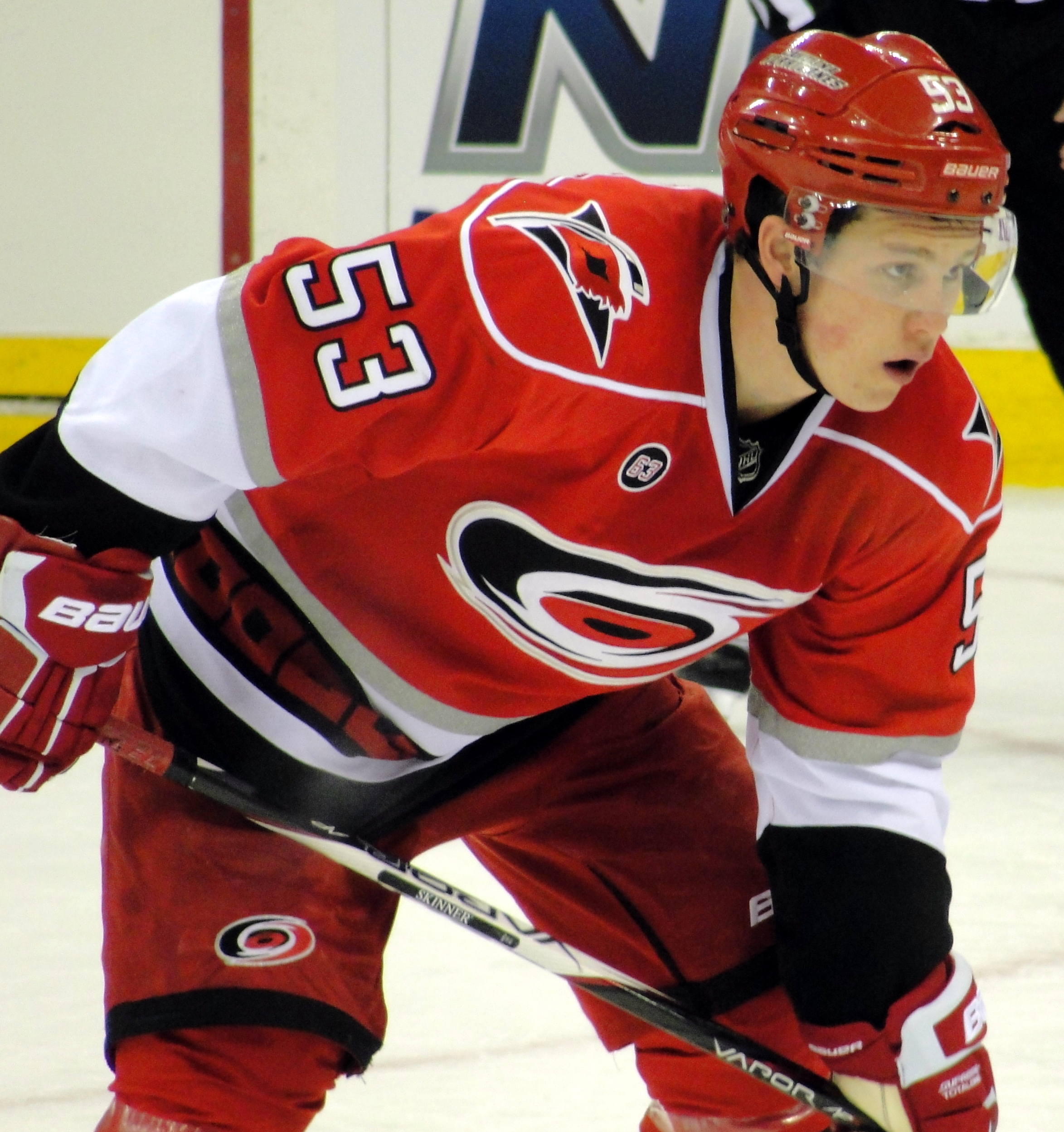 Carolina Hurricanes forward Jeff Skinner awaits the faceoff during a November 12, 2011 game against the Pittsburgh Penguins at RBC Center in Raleigh, NC.